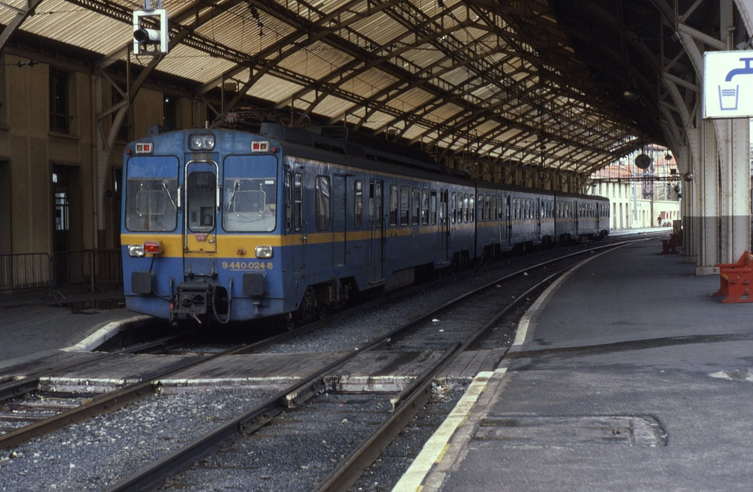 RENFE EMU 440.024 on the broad gauge track at Cerbère (France) on 9 April 1987. RENFE and SNCF local services meet at both border stations with the two gauges here and at Portbou (Spain). Generally services to from other stations in France terminate at Portbou and services originating in Spain work to Cerbère.